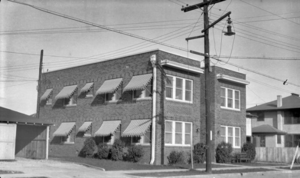 A Brick building and power lines